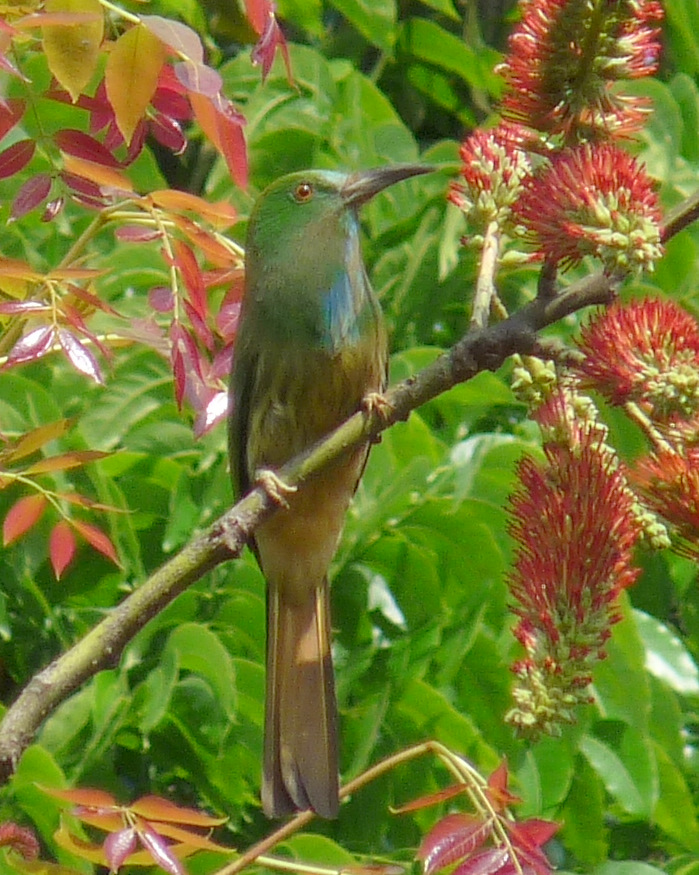 Blue-bearded Bee-eater (Nyctyornis athertoni), found near Anaikatti, Coimbatore, Tamil Nadu, India